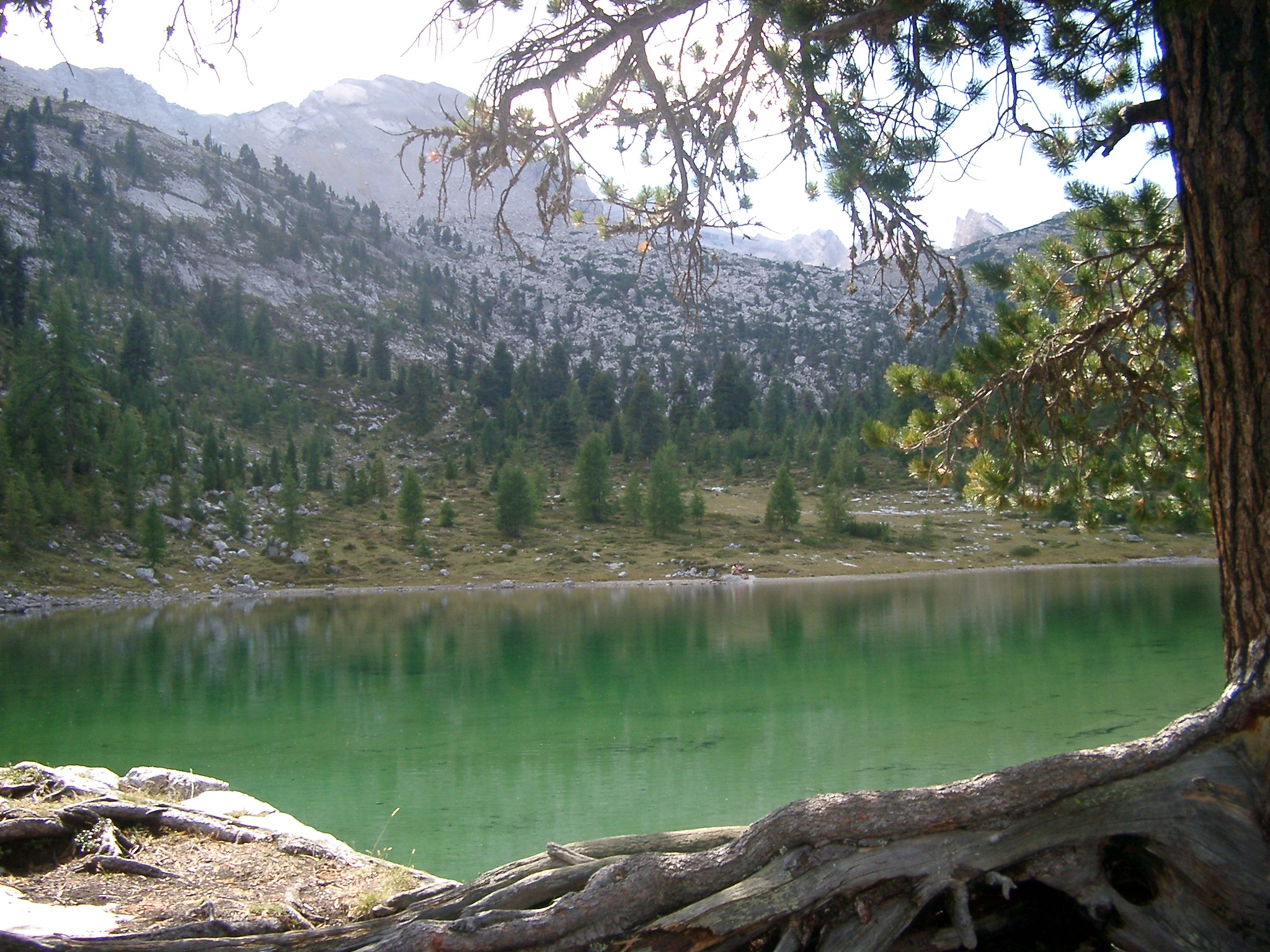 South Tyrol, Enneberg/Mareo/Marebbe, Fanes alm, Grüner See/Green Lake 2005, September